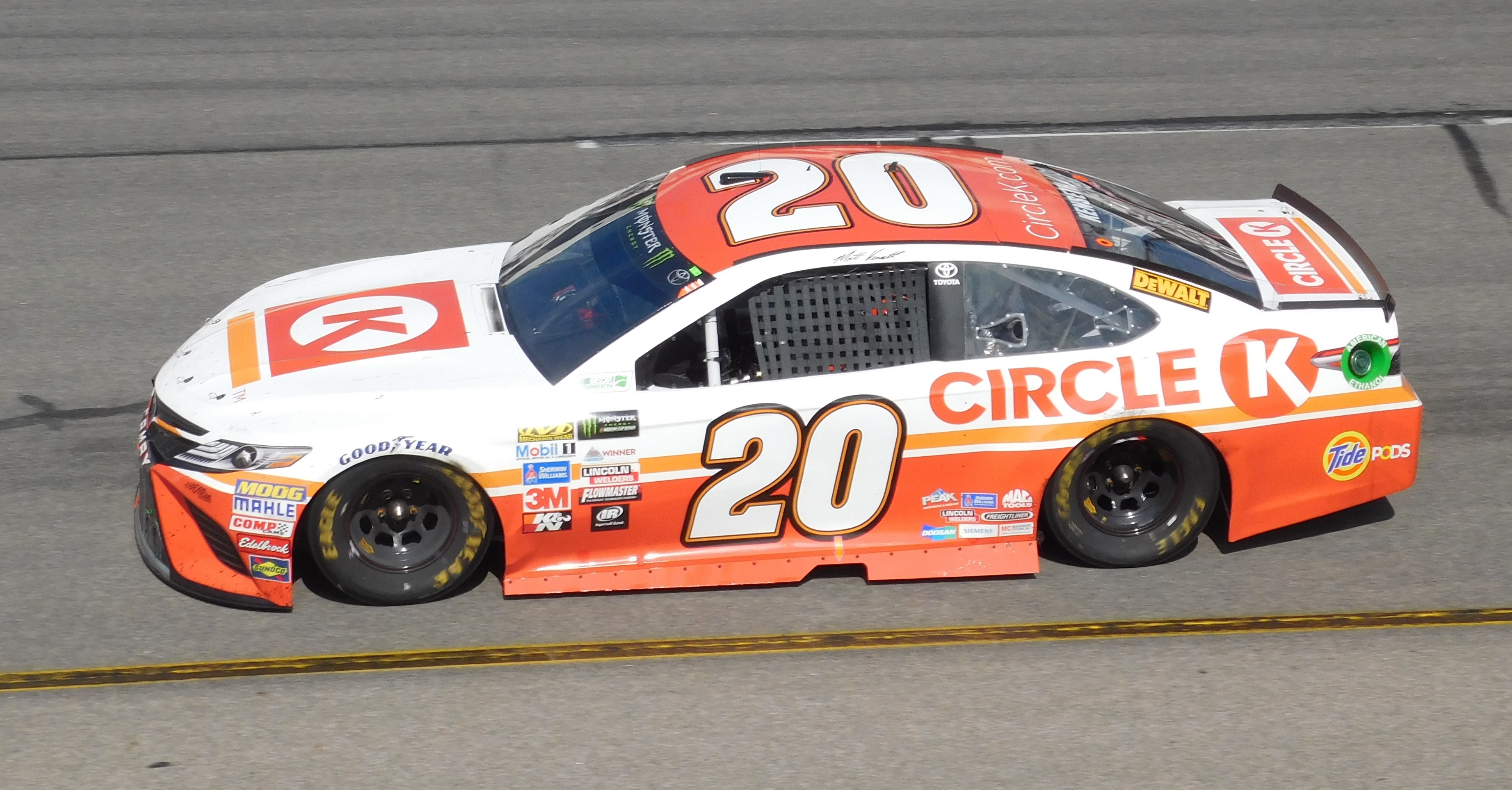 Matt Kenseth's No. 20 Circle K Toyota at Richmond International Raceway in 2017